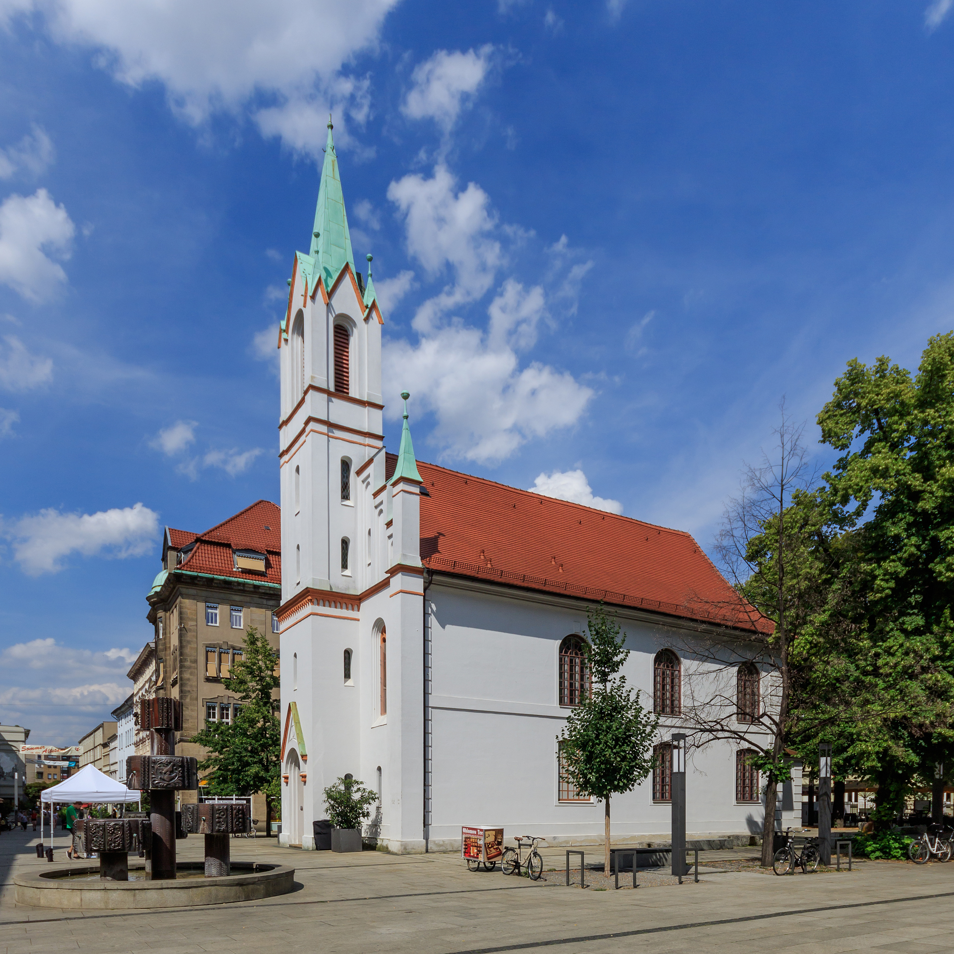 Former Palace Church in Cottbus (Germany)